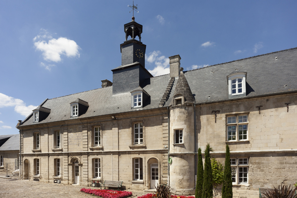 Blérancourt; Hôtel de Fourcroy; Nord-Pas-de-Calais-Picardie, Aisne; France; ref: PM_103168_F_Blerancourt; Cultural heritage; Europe/France/Blérancourt; Wiki Commons; photo: Paul M.R.Maeyaert; © Paul M.R. Maeyaert